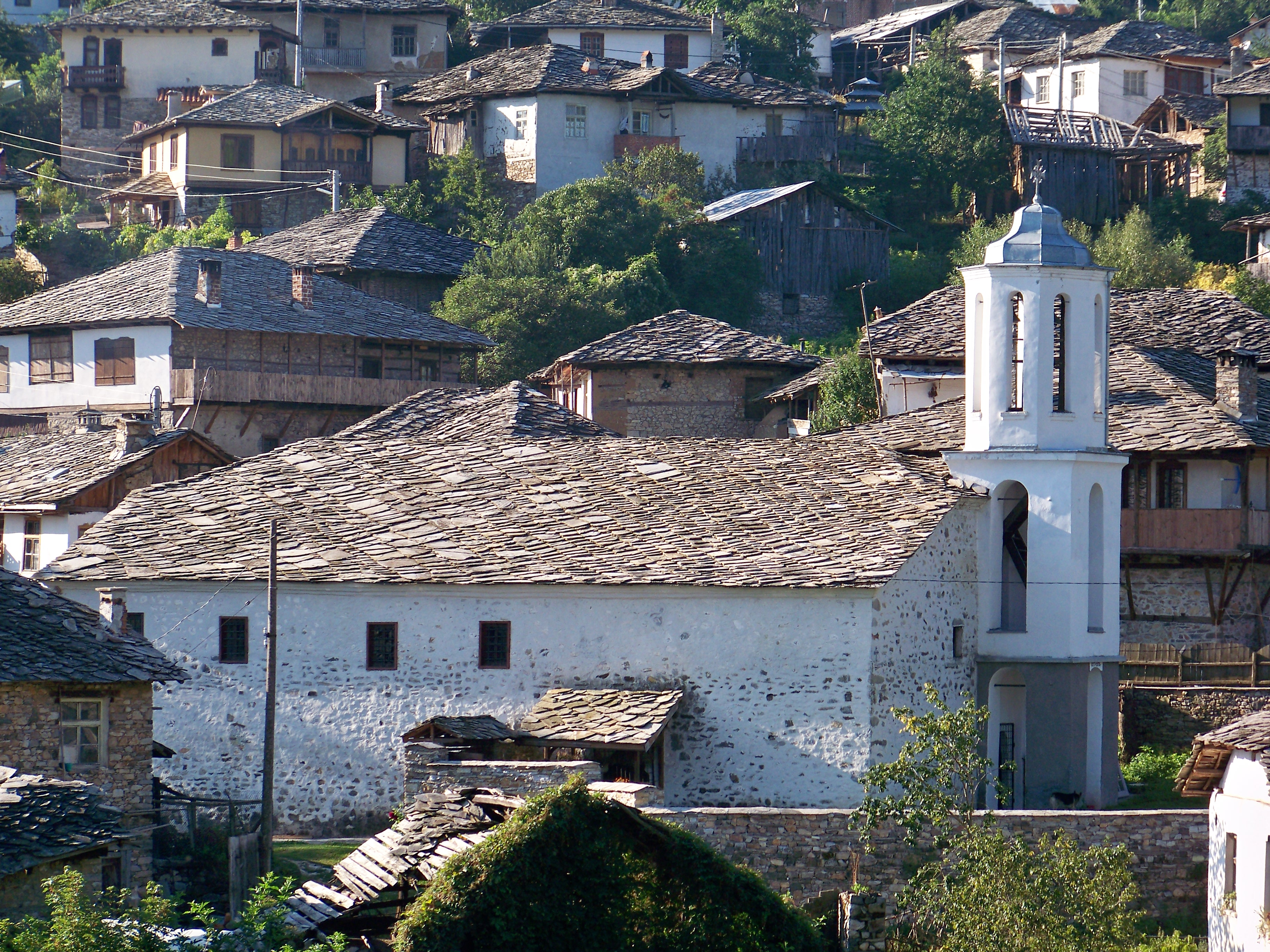 Dolen is a village in southern Bulgaria located in the Zlatograd municipality of the Smolyan Province.